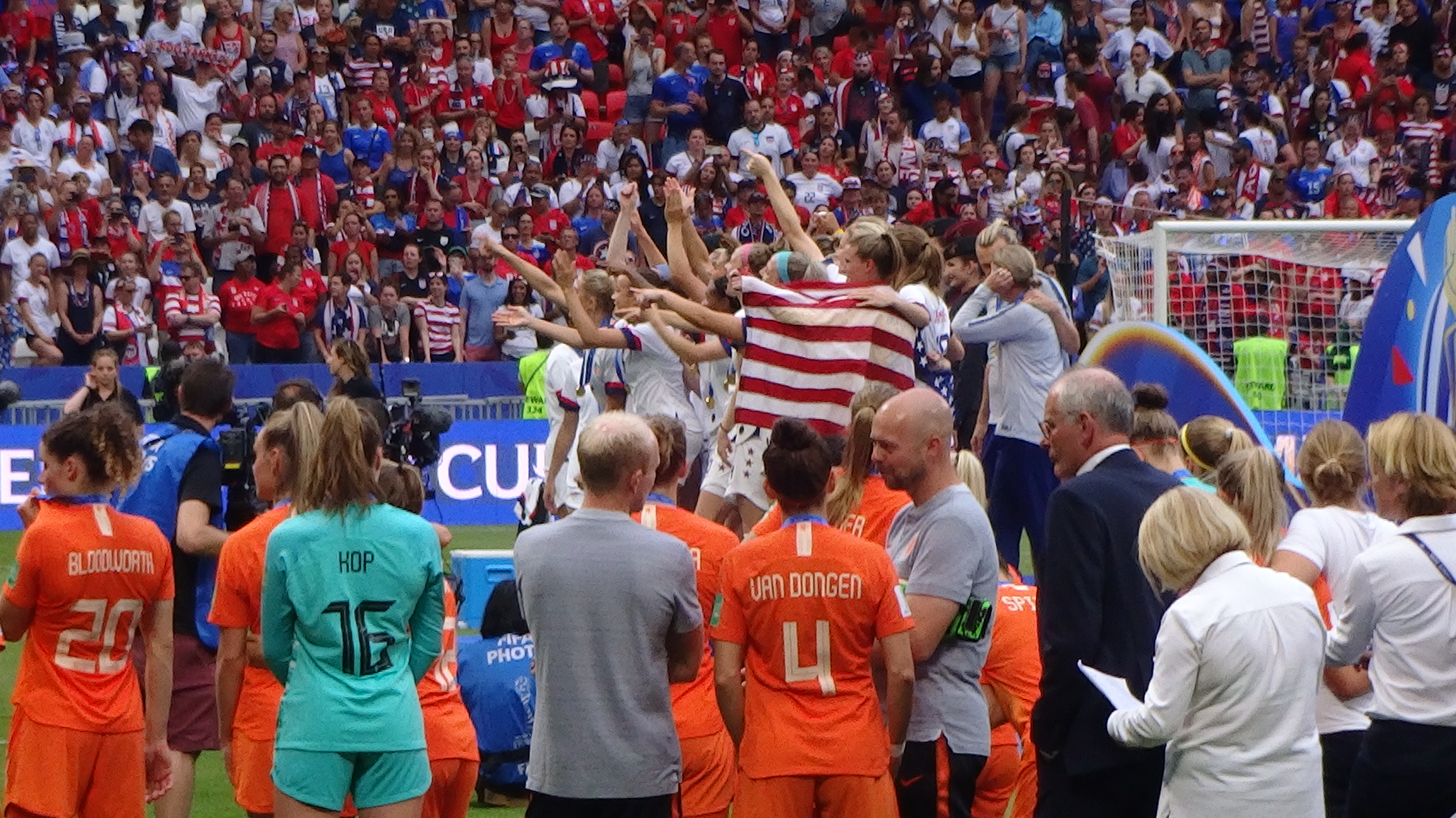 The US team receiving their champion medals